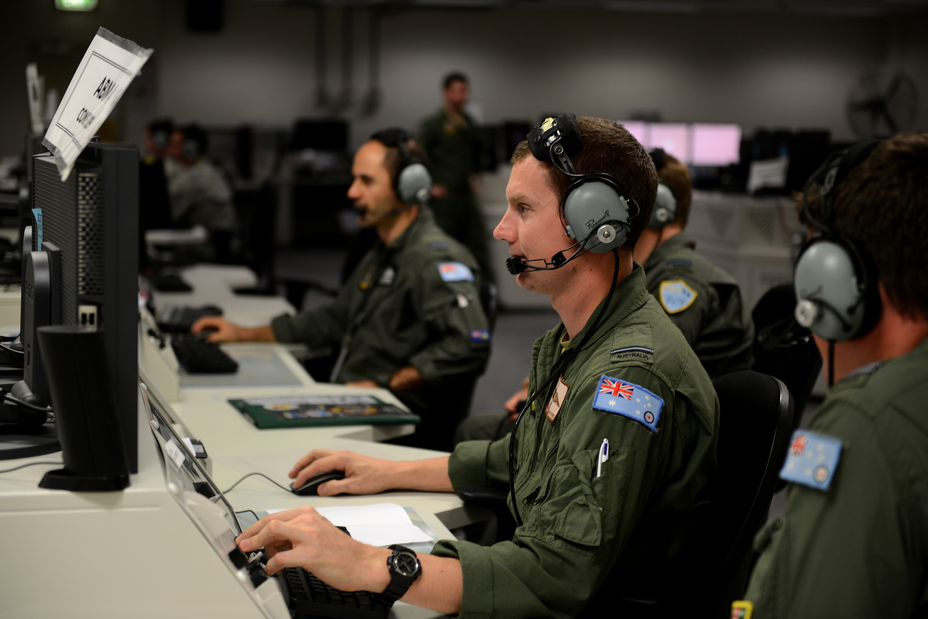 Royal Australian Air Force Flying Officer “Wally”, 41 Wing Surveillance and Control Training Unit air battle manager, debriefs with his counterpart in the Tactical Control Center, on RAAF Base Williamtown, New South Wales, Australia, March 23, 2017. Throughout the duration of the exercise, air battle managers are primarily responsible for command and control of the RAAF ‘Blue Air’ forces and for overseeing battle management operations when scenarios are active. (U.S. Air Force photo by Tech. Sgt. Steven R. Doty)